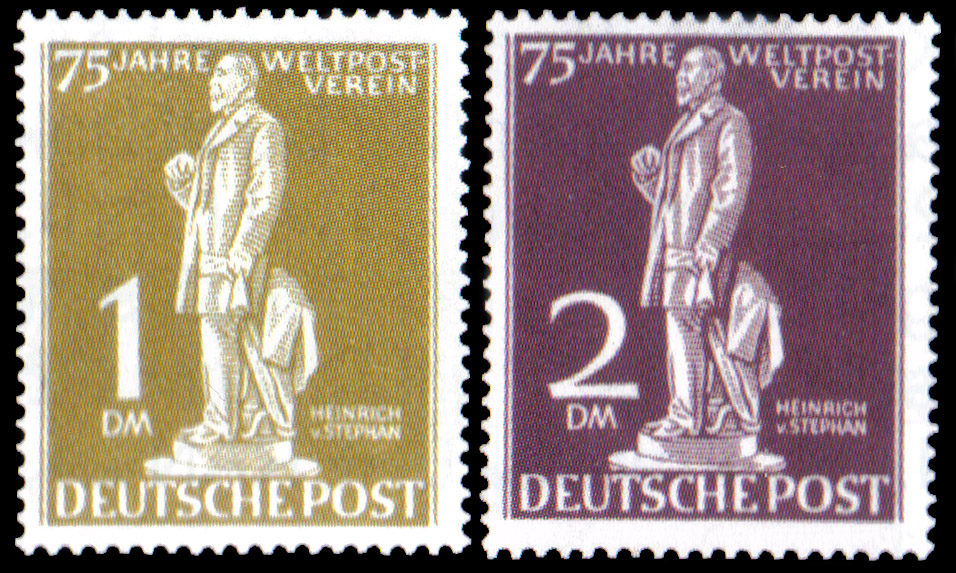 German stamp "DEUTSCHE POST": 75 years UPU Universal Postal Union, 1950, Michel (Berlin) 40+41